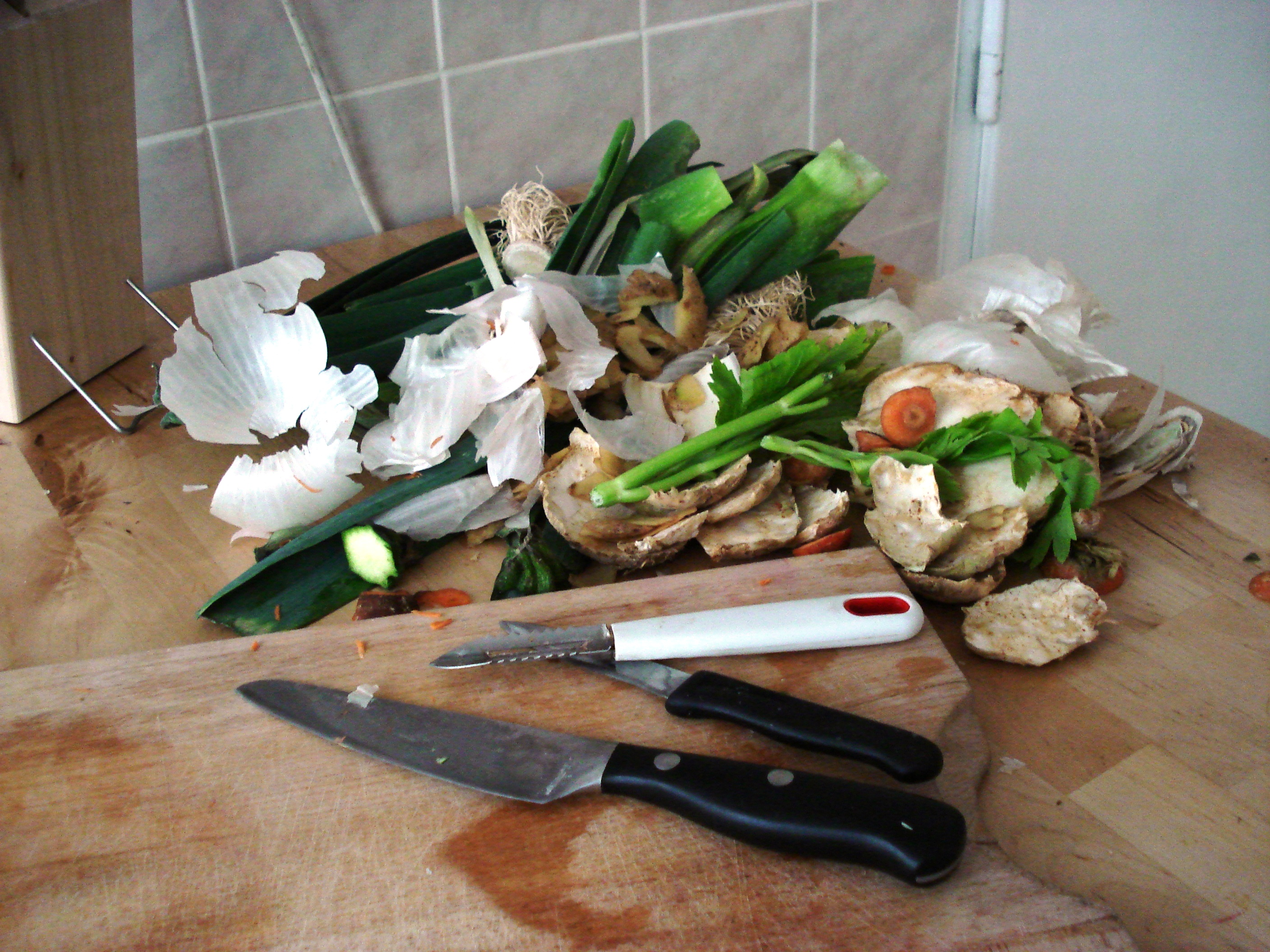 parrings and vegetable refuse.